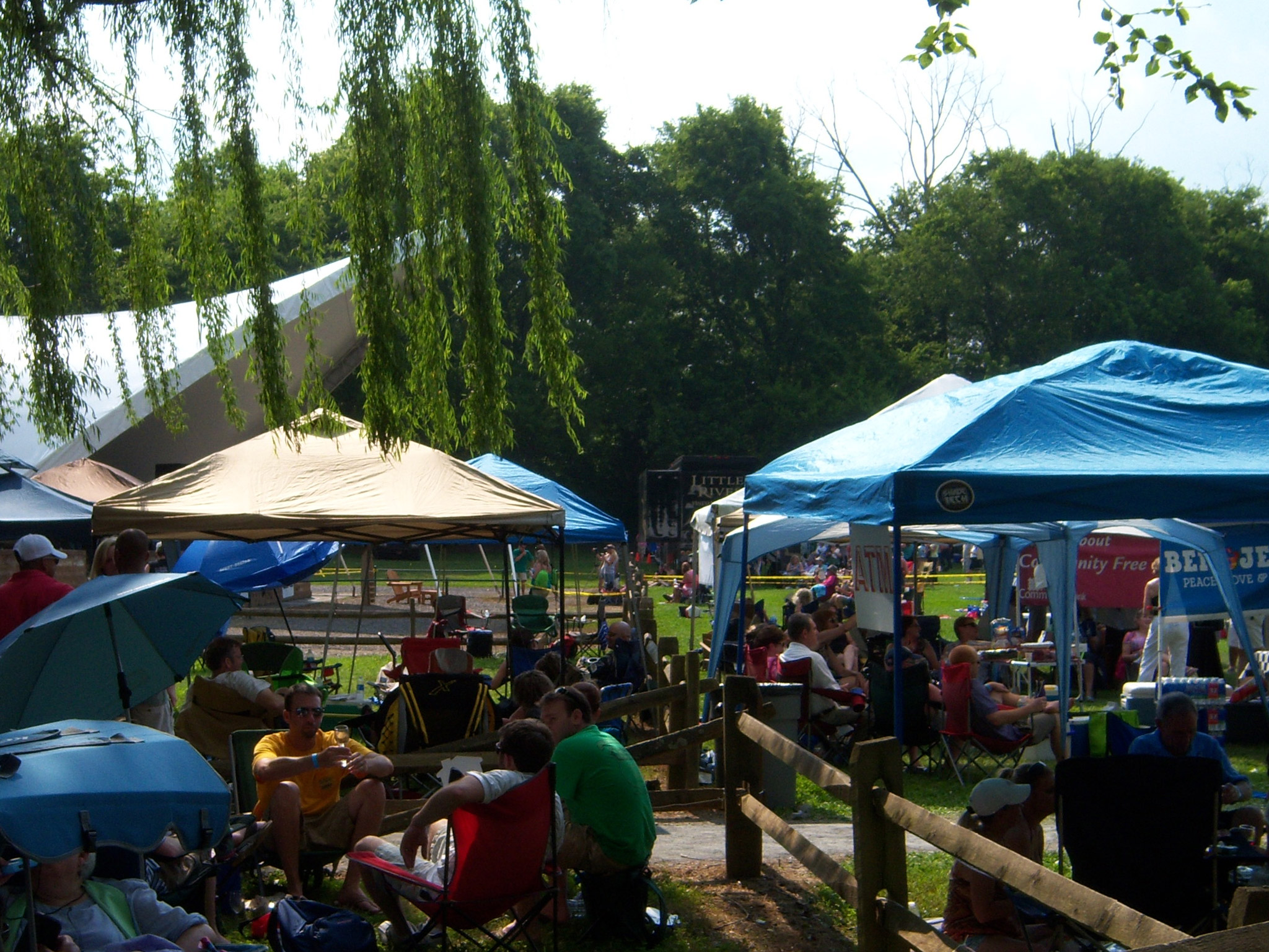 2012 NC Wine Festival band stand